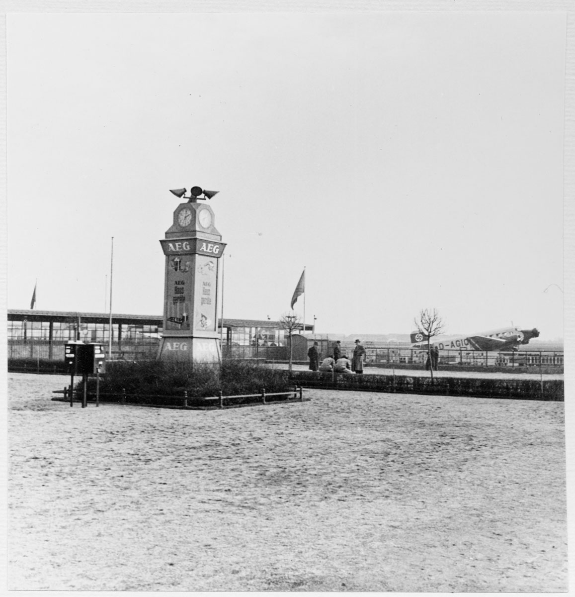 Airport Tempelhof in Berlin, Germany 1937. Photo Nr: 2068-49.